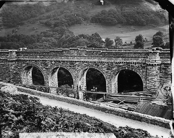 1 negative : glass, wet collodion, b&w ; 10 x 12.5 cm.